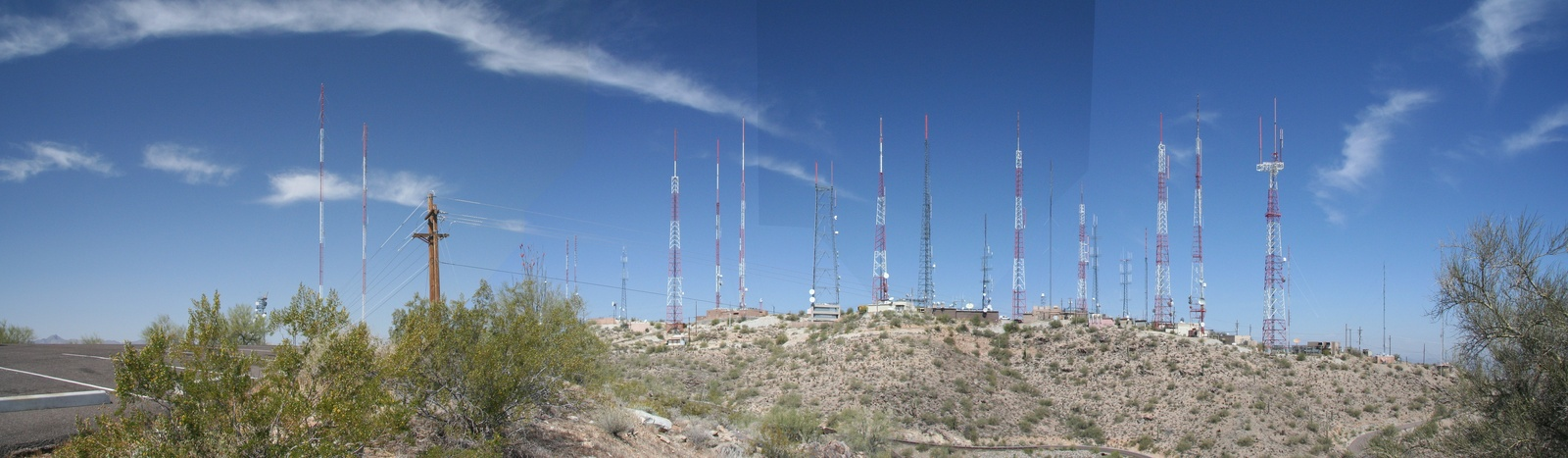 A panorama of the South Mountains broadcast towers